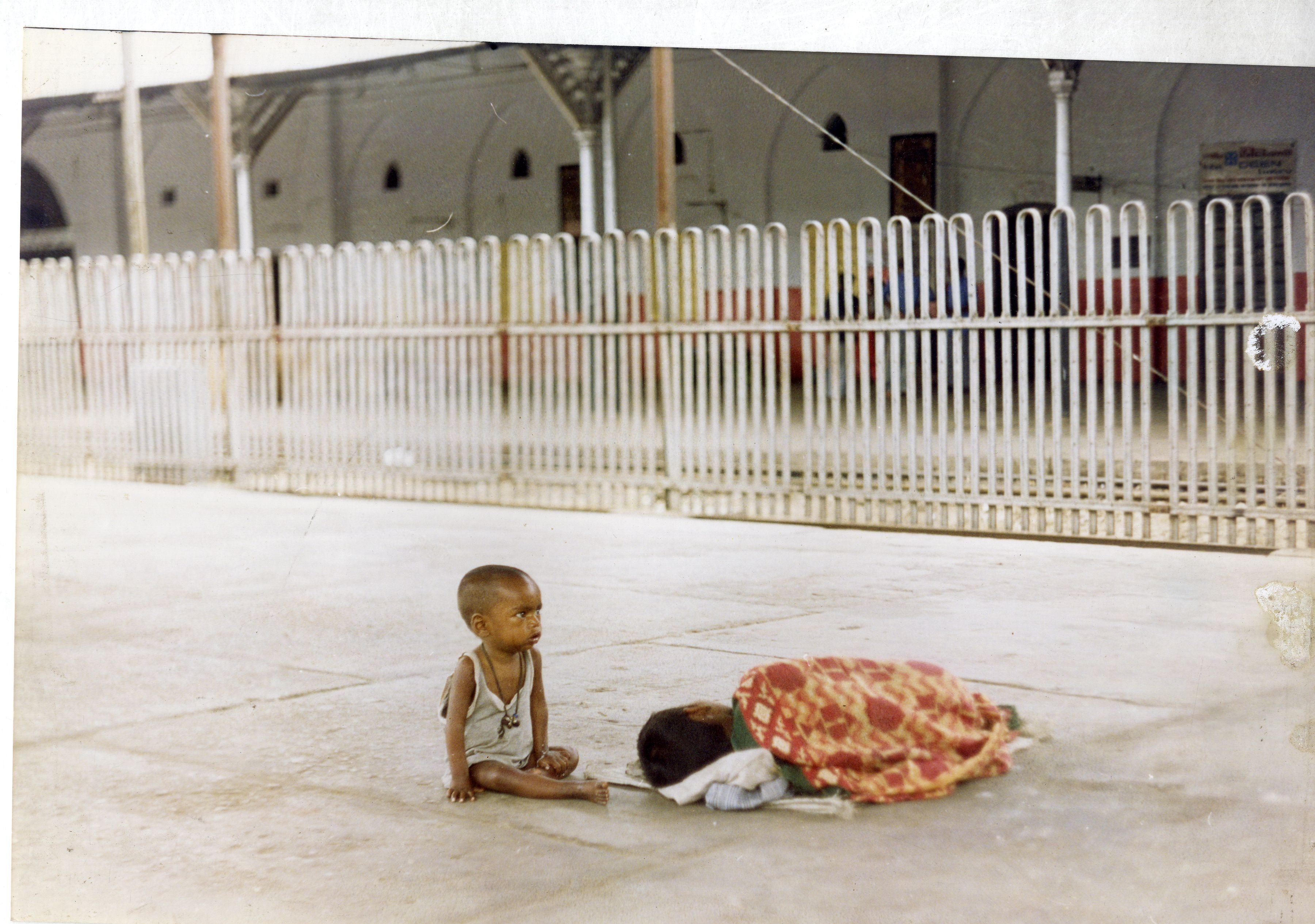 mom in search for work.child left unattended